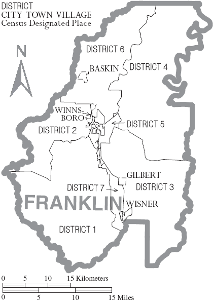 Map of Franklin Parish, Louisiana, United States with municipal and district boundaries